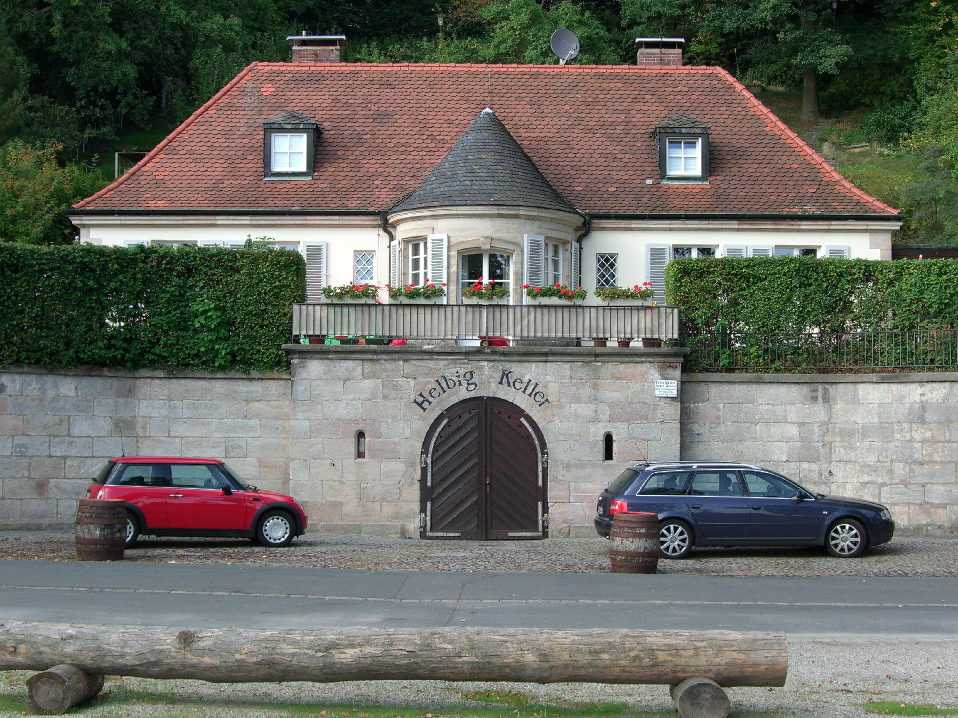 The Helbig Keller at the compound of the Bergkirchweih at the Burgberg in Erlangen, Germany.